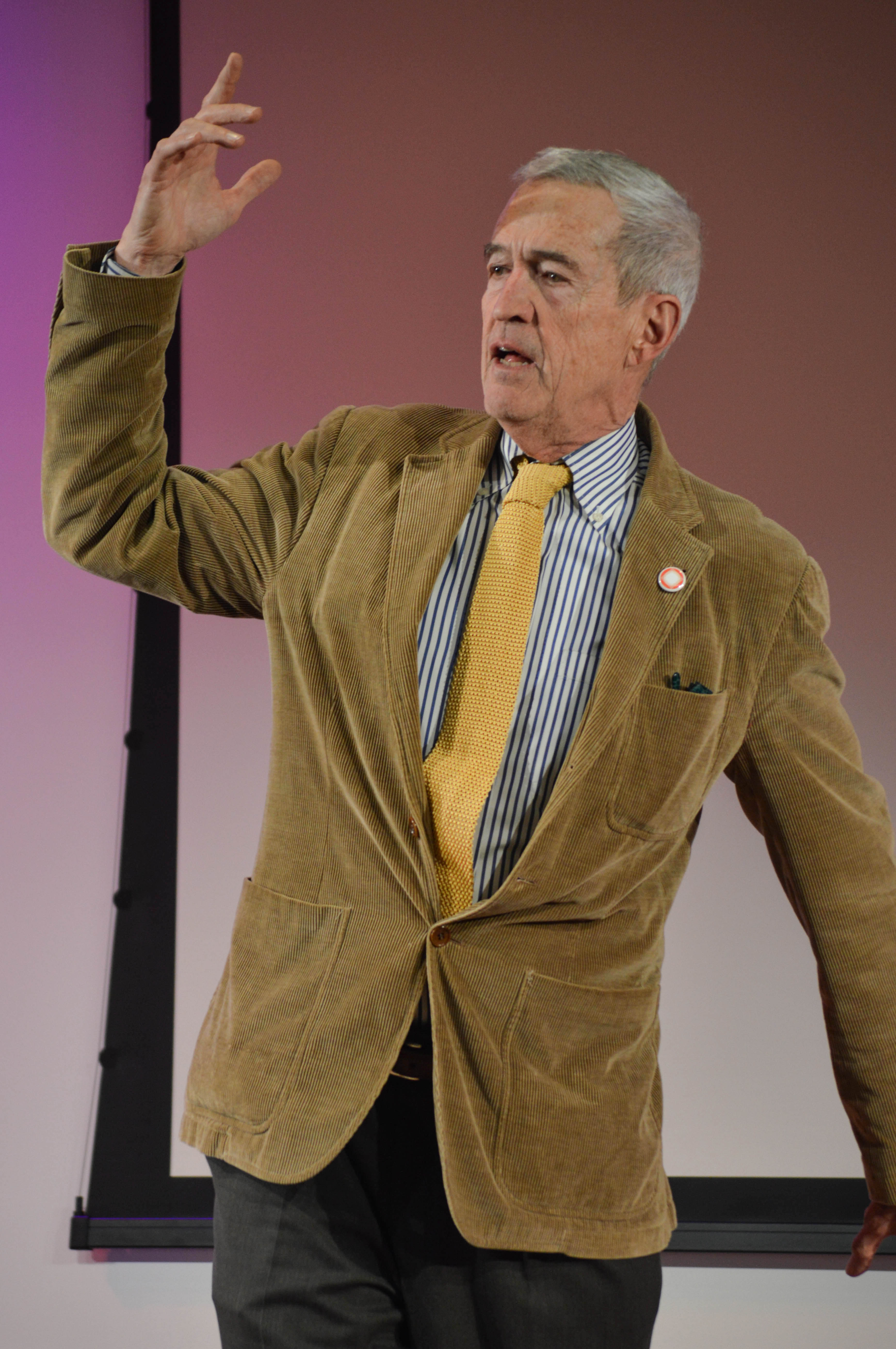 Thomas Forrest Kelly at the opening of the Harvard Allston Ed Portal, 2015